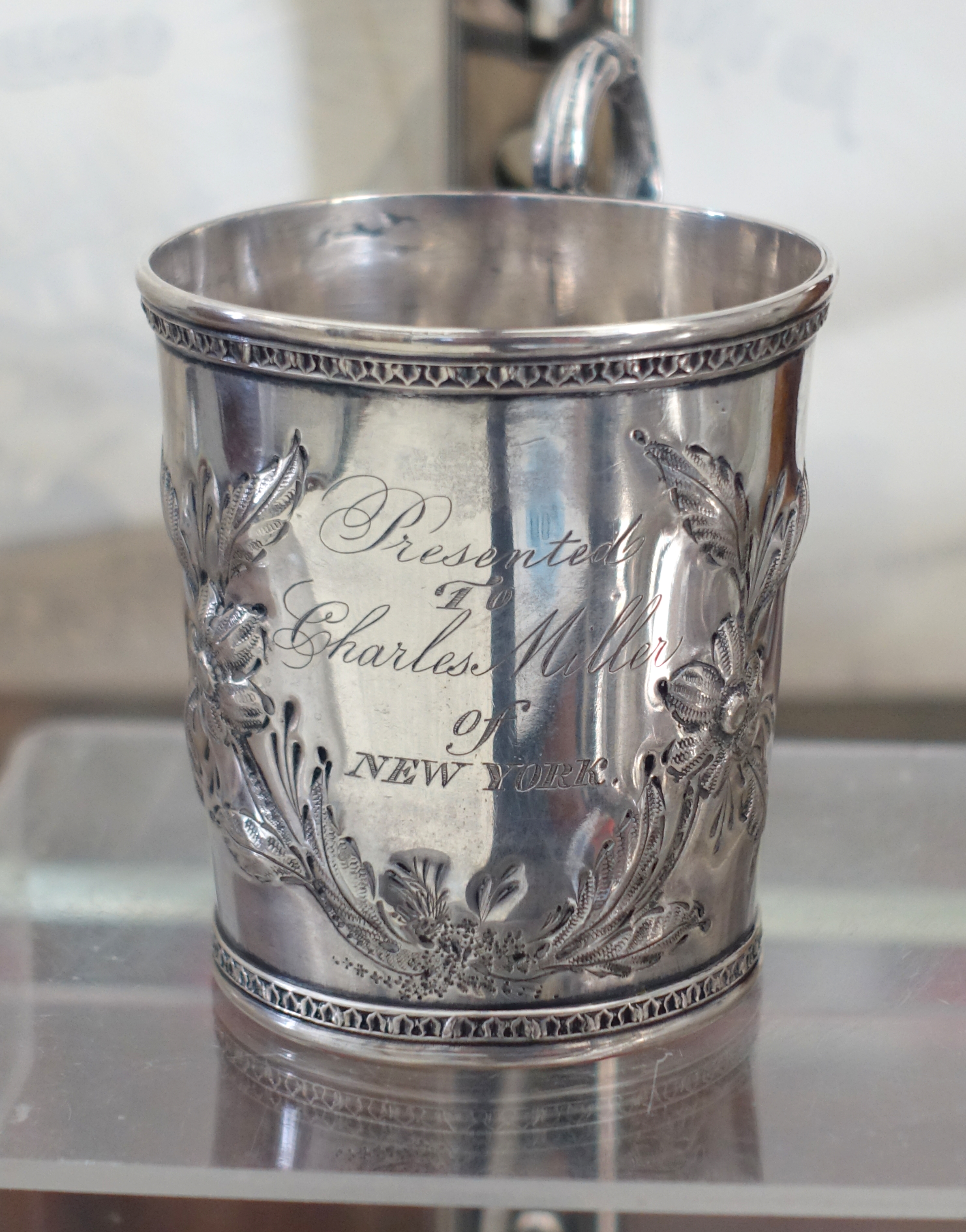 Exhibit in the Bennington Museum - Bennington, Vermont, USA. This work is in the public domain because the artist died more than 70 years ago.